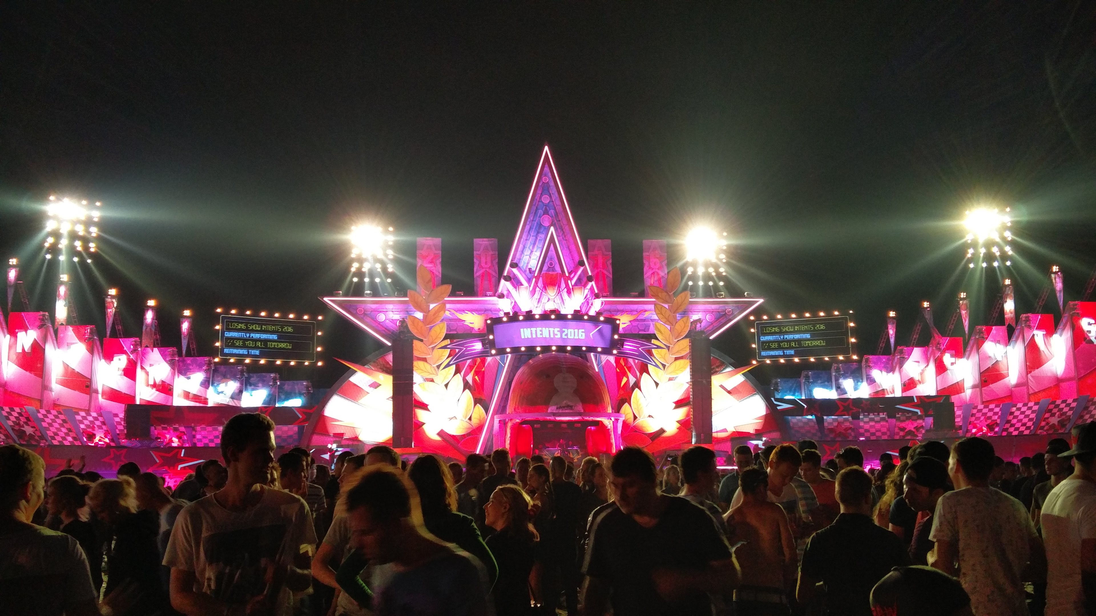 Mainstage Intents Festival 2016